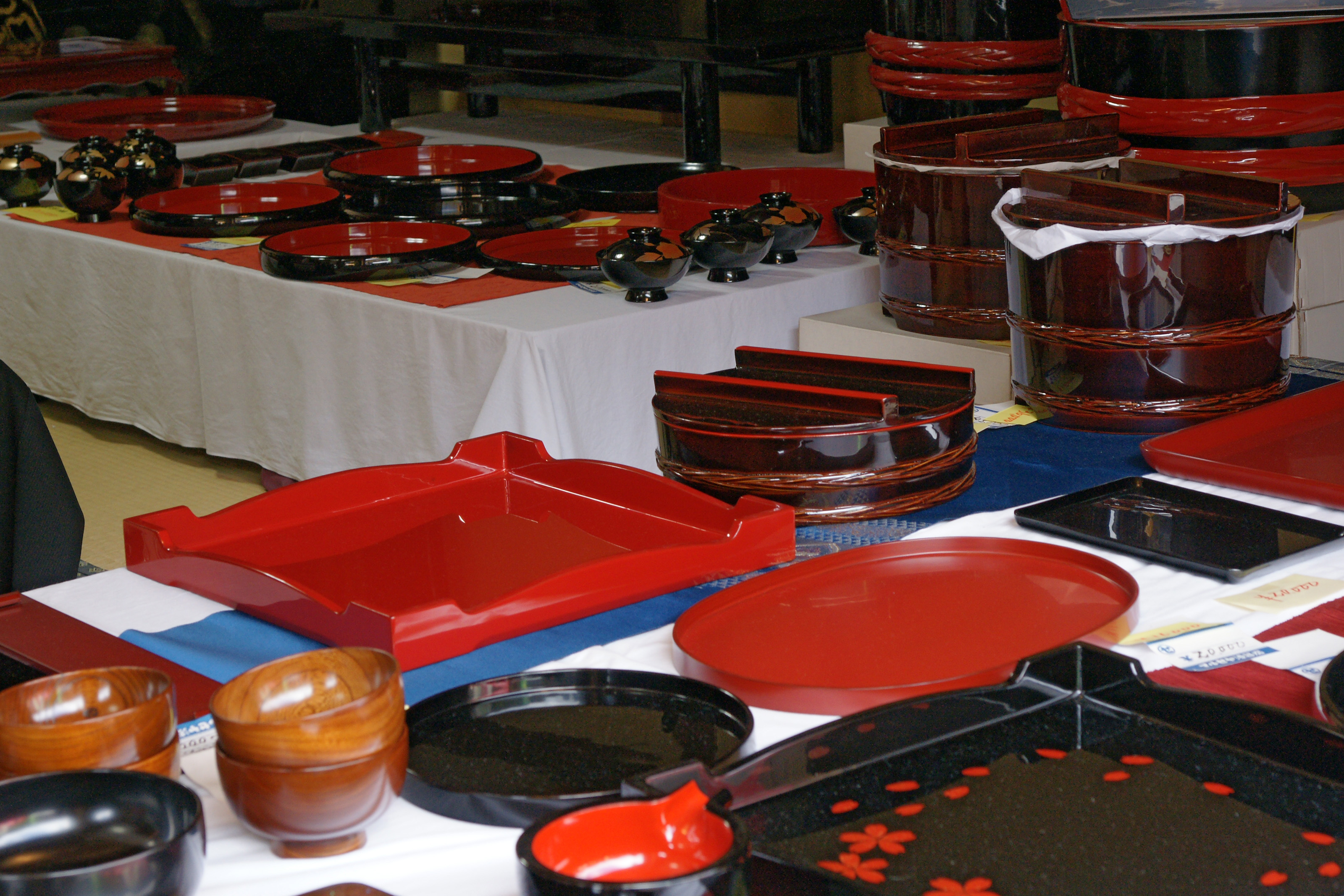 Kiso-Hirasawa, Shiojiri, Nagano prefecture, Japan